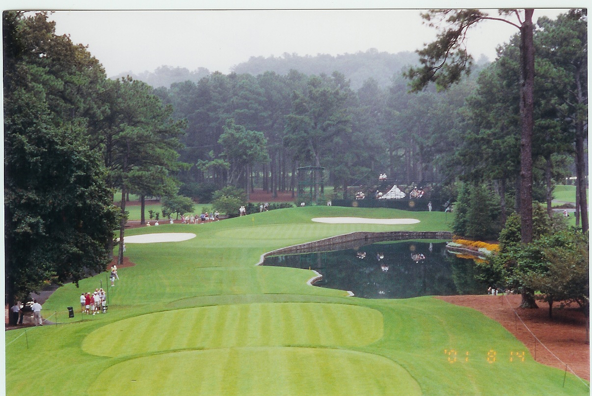 2001 PGA Championship Practice Round - #15 Highlands - Monday, August 13, 2001